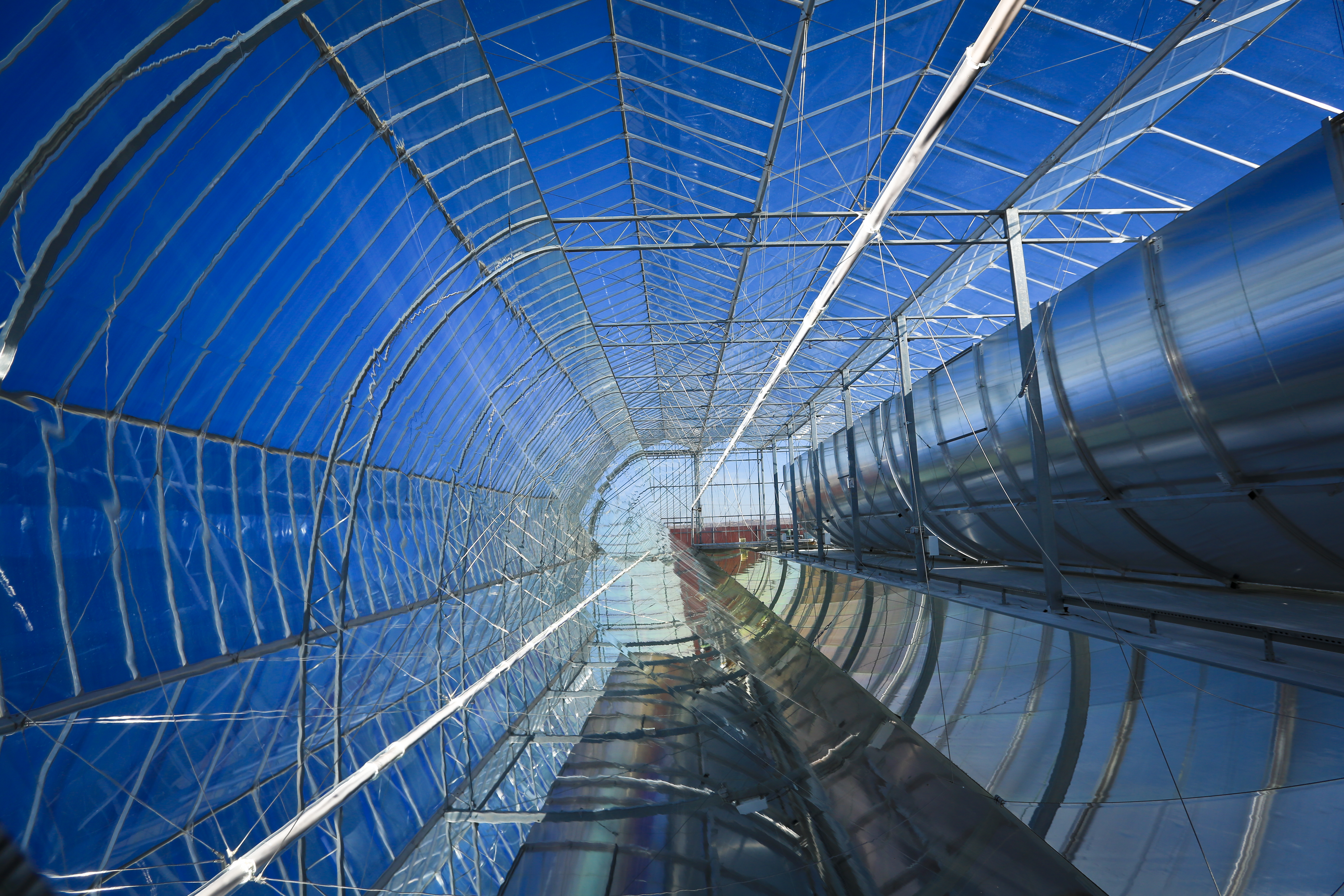 A view from inside the enclosed-trough parabolic solar mirrors, used to concentrate sun and generate steam for EOR.